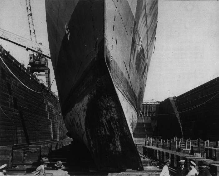 The U.S. Navy destroyer escort USS Buckley (DE-51) in drydock at the Boston Navy Yard, Massachusetts (USA), circa in May 1944. Her bow bent is from ramming the German submarine U-66. U-66 was detected by General Motors TBM Avenger of Composite Squadron 55 (VC-55) from the escort carrier USS Block Island (CVE-21) and sunk by Buckley on 6 May 1944.